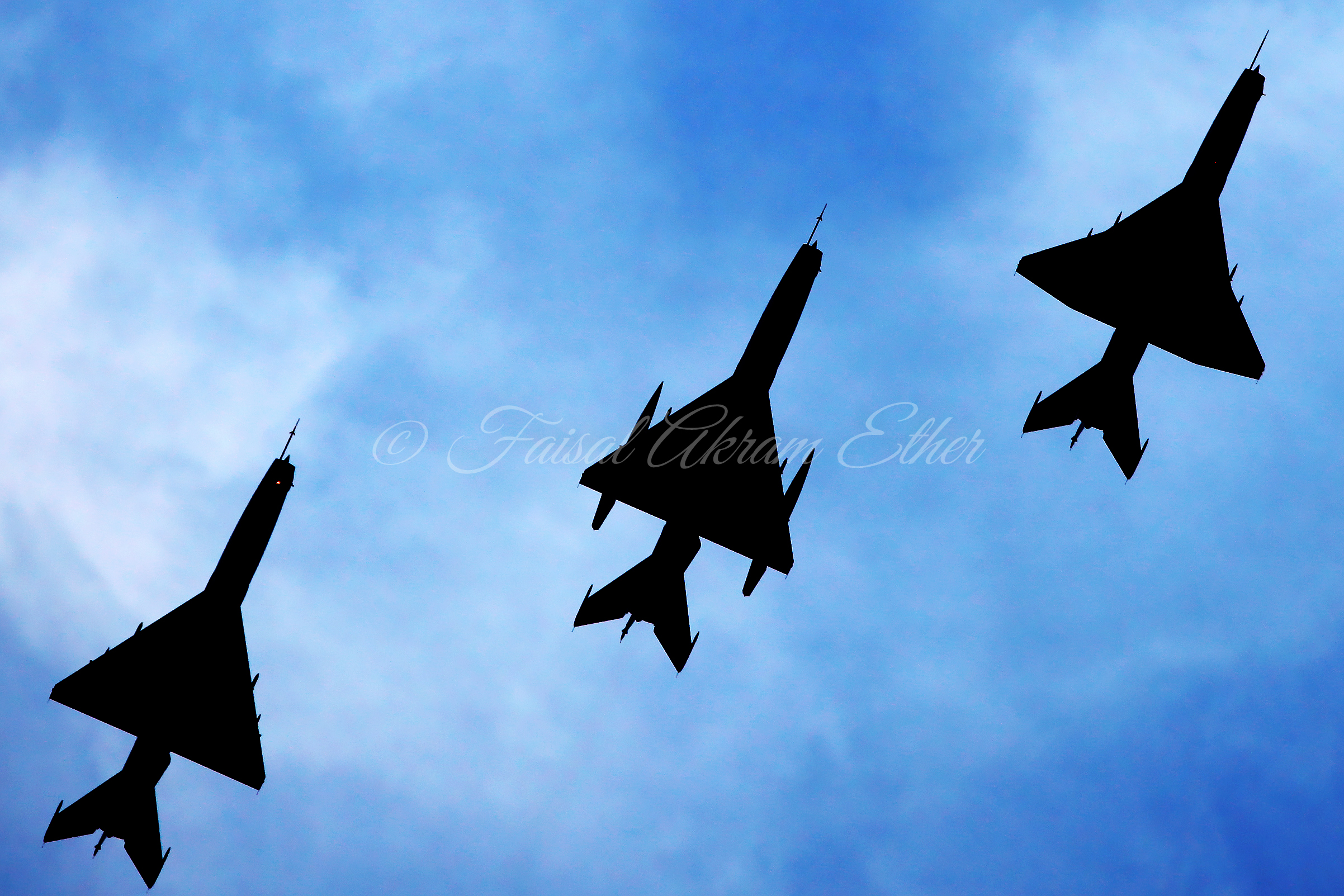 3 Bangladesh Air force F-7BG (MIG-21) Flying in Formation.